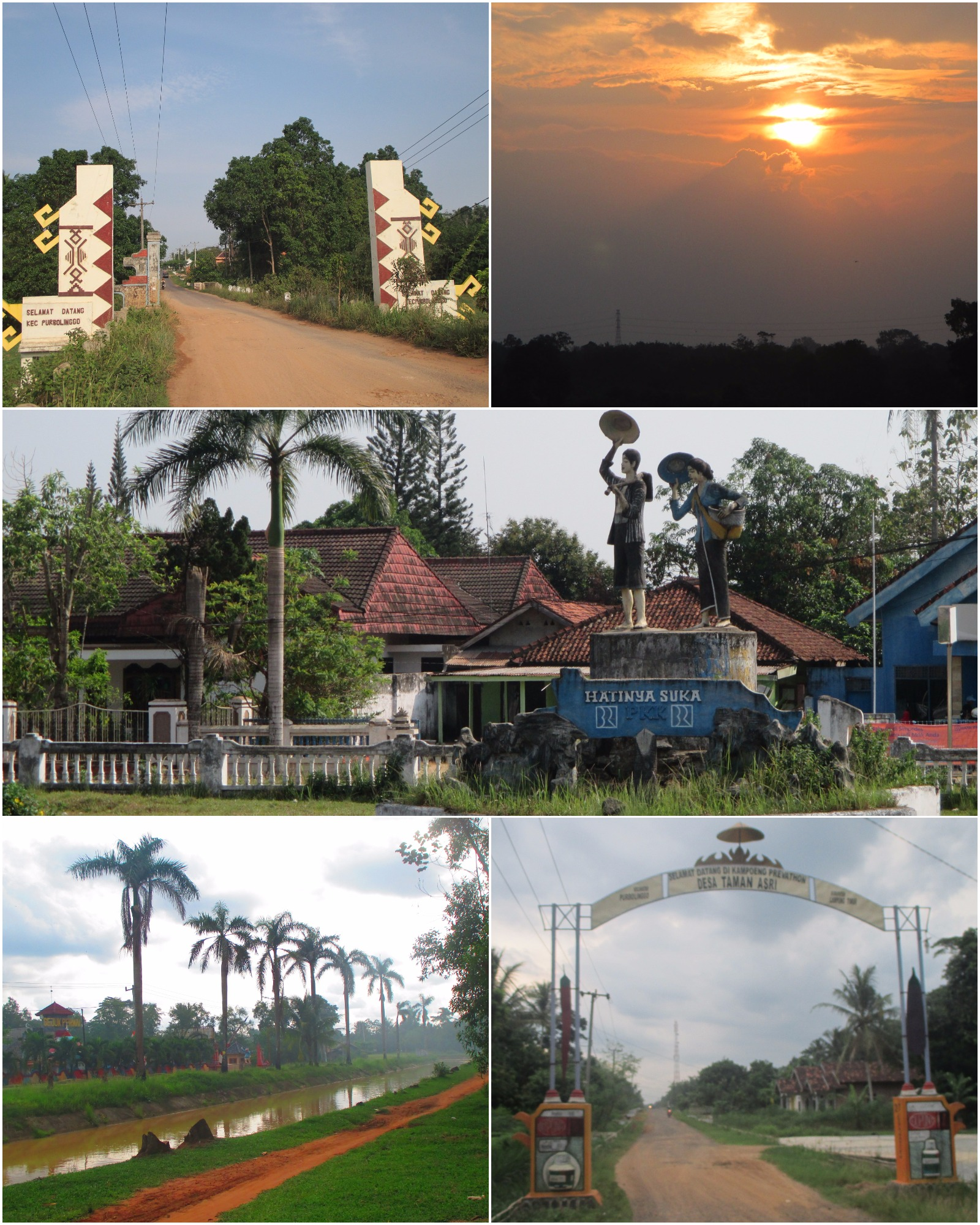 city view Purbolinggo